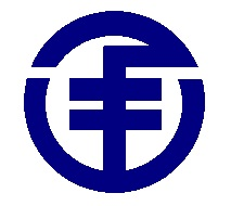 Kannami Shizuoka chapter